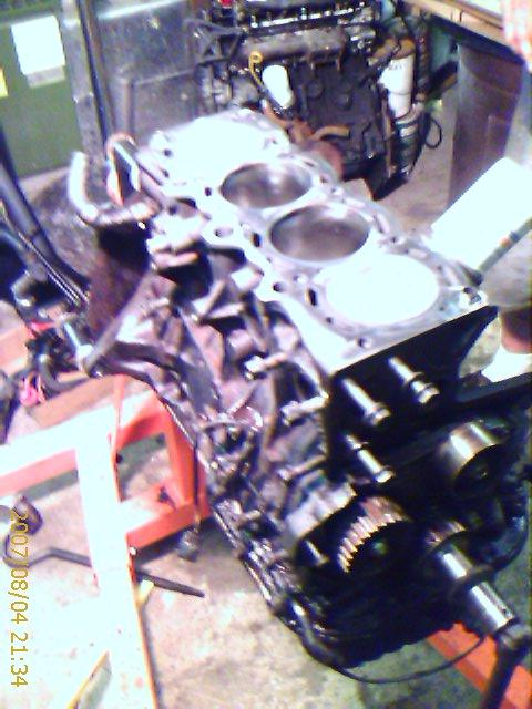 Toyota 3S-GTE shortblock has been cleaned with a wire brush and solvent. It is ready for head installation.